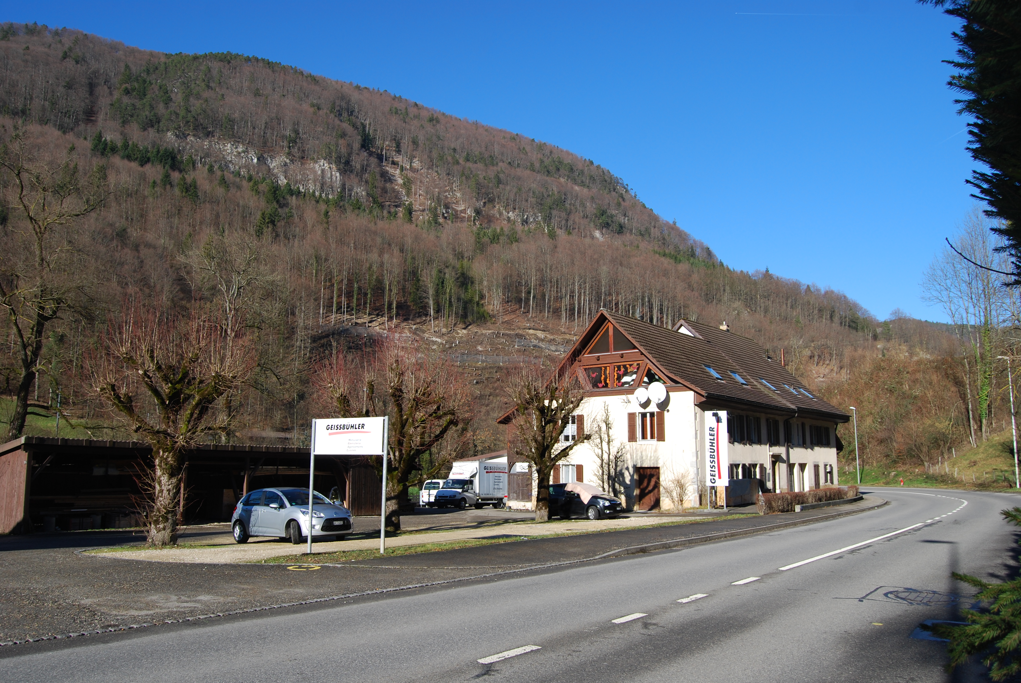 Roches, canton of Bern, Switzerland